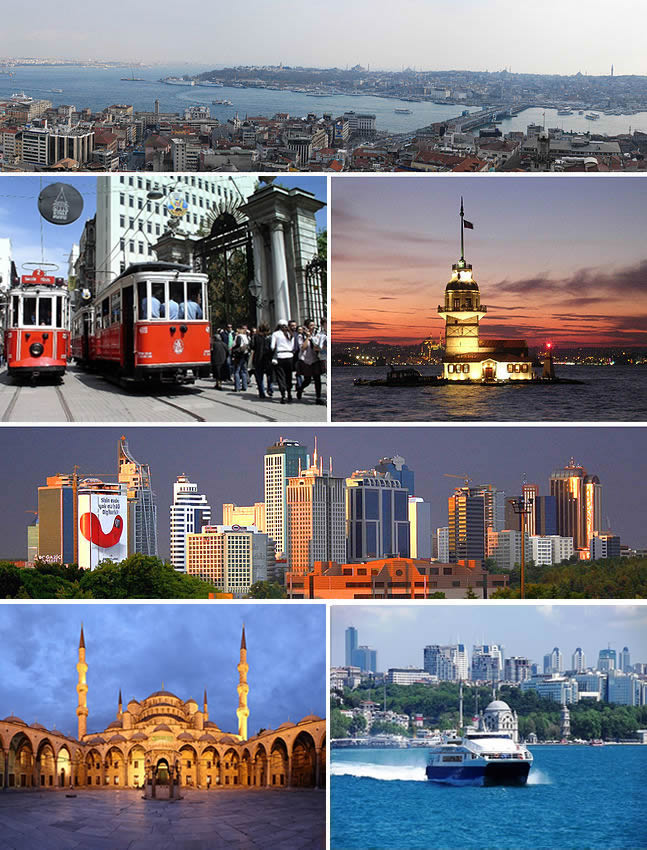 Collage of Istanbul